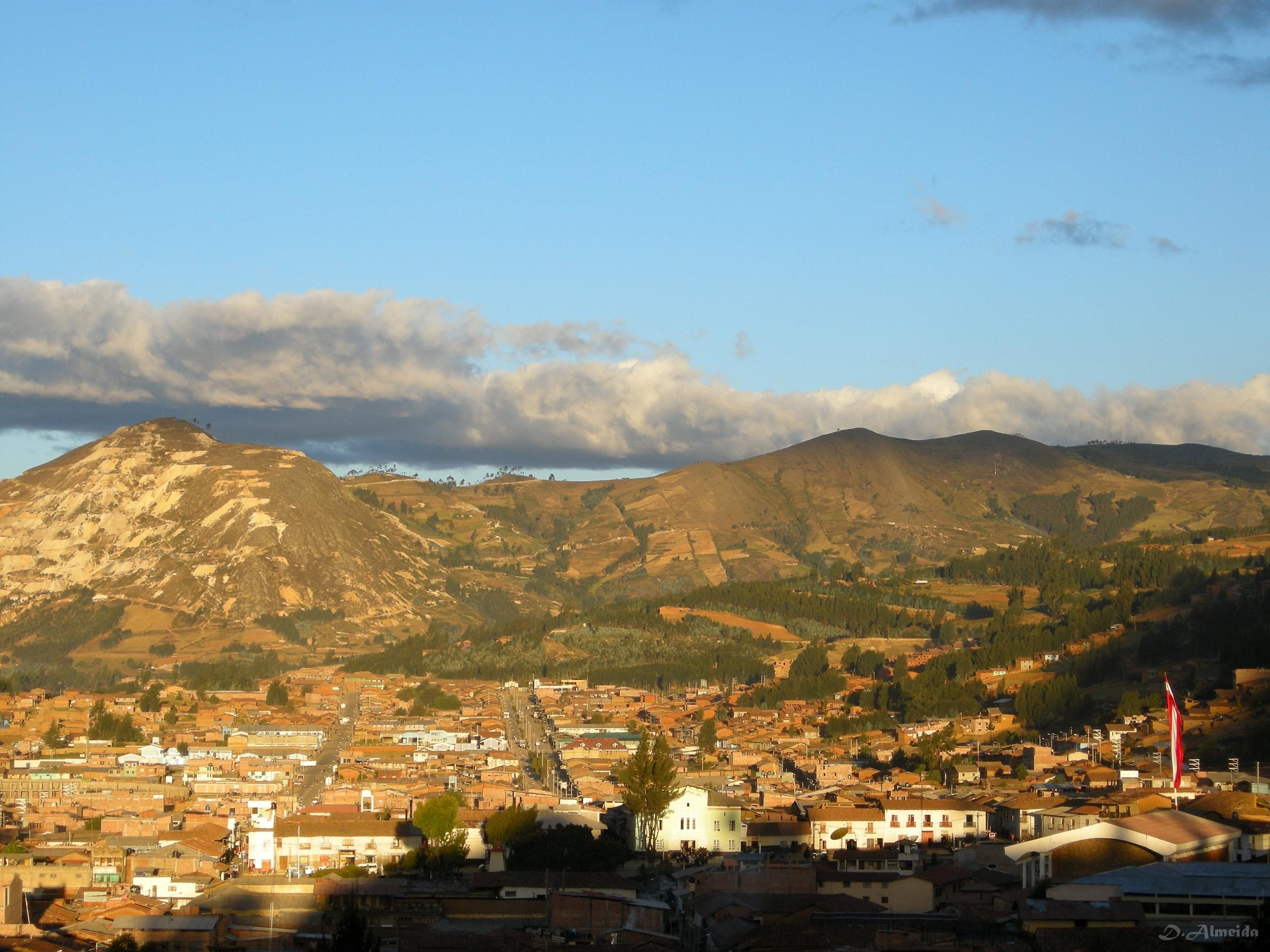 A view of Huamachuco, the capital city of Sánchez Carrión province in northern Peru, with the Andes mountains in the background.